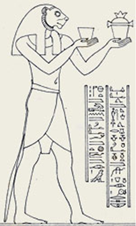 Shesmu